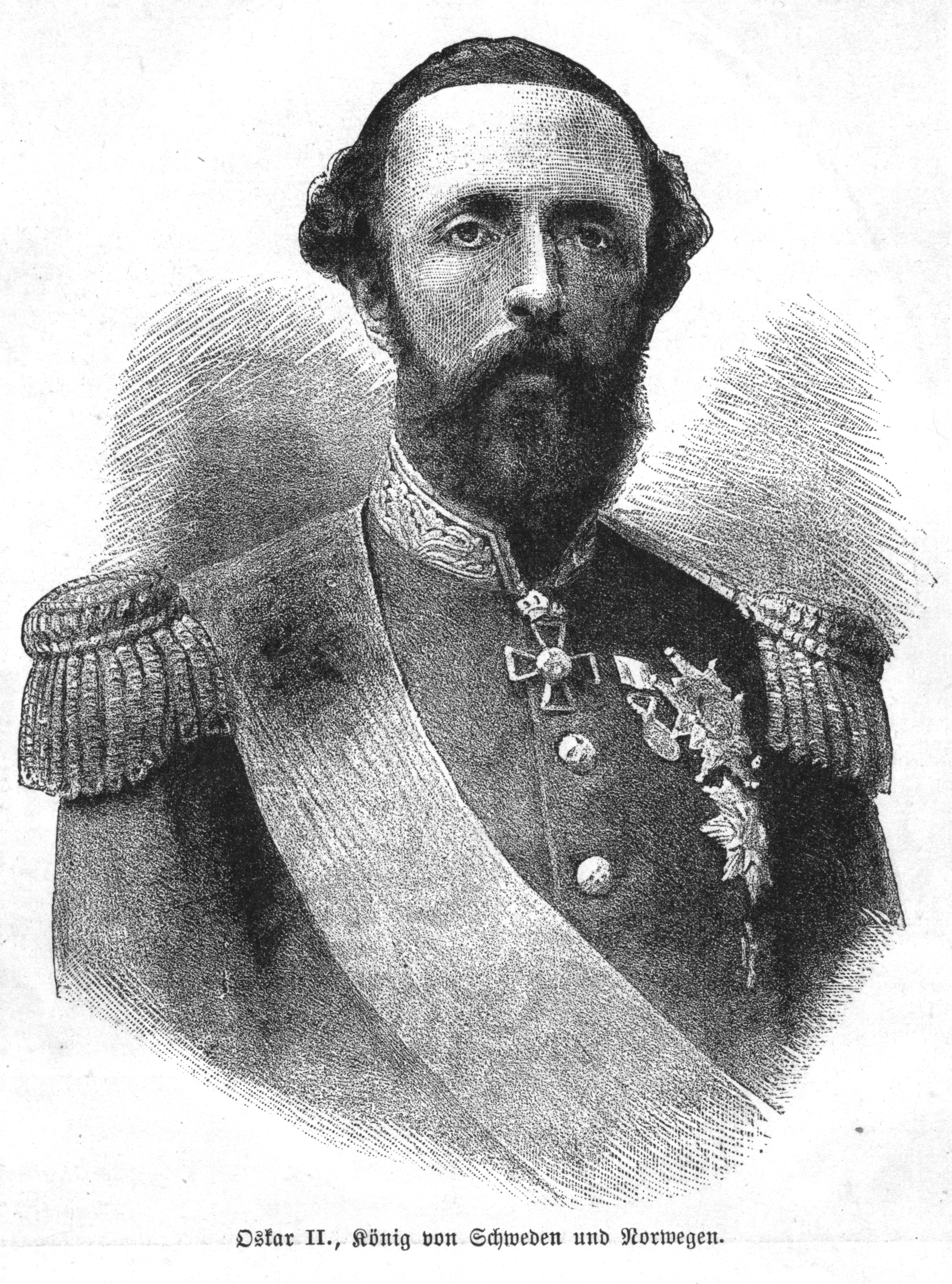 Oscar II of Sweden